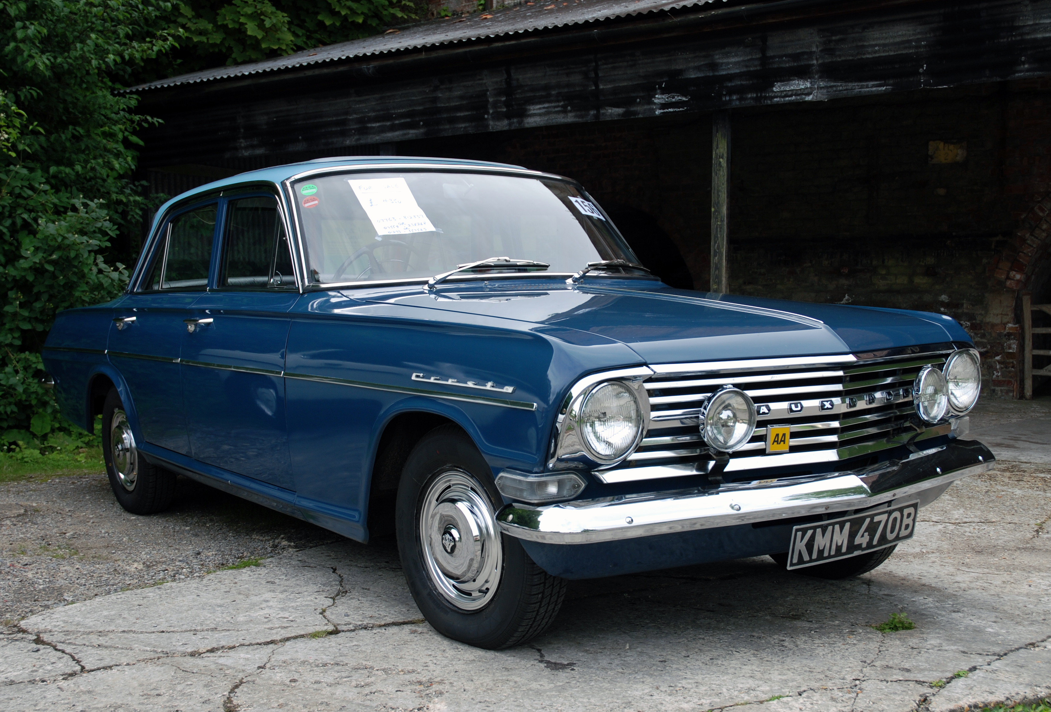 Amberley Working Museum,July 2009